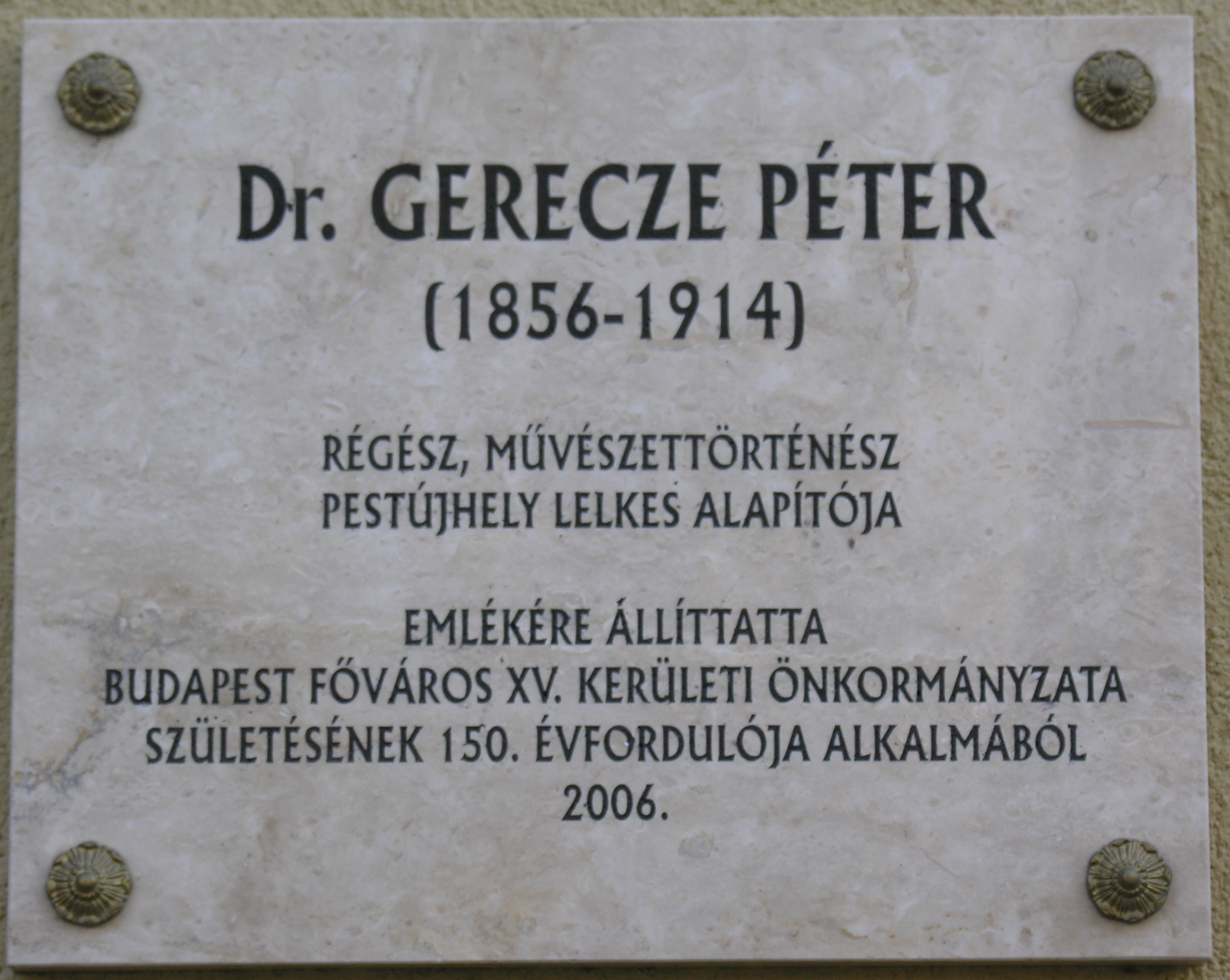 Commemorative plaque of Péter Gerecze, Budapest District XV, Pestújhelyi Street No 38